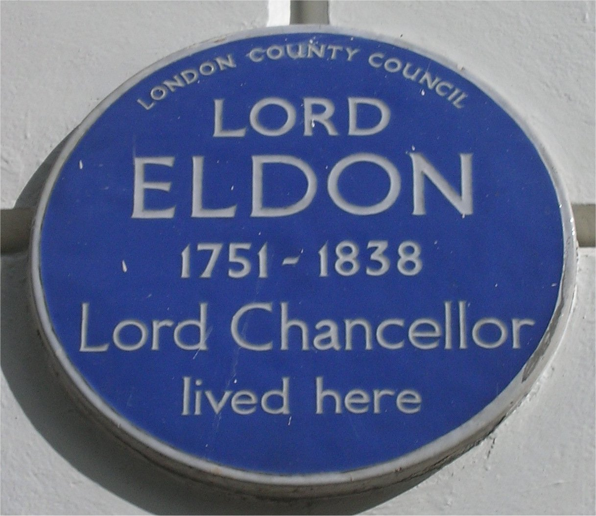 Blue plaque to Lord Eldon on his house in Bedford Square, London, England. Photographed by me 29 September 2006. Oosoom